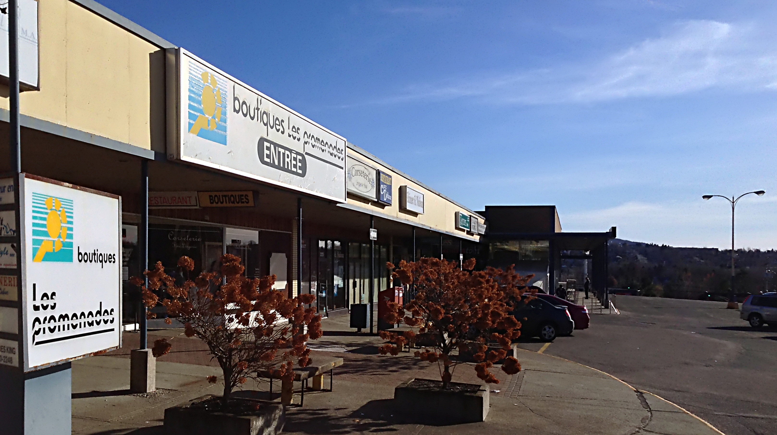 Shopping center "Les Promenades King", in Sherbrooke, Quebec, Canada.